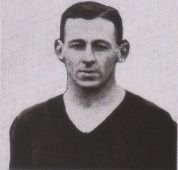 Photo of Jim Abernethy taken before 1932